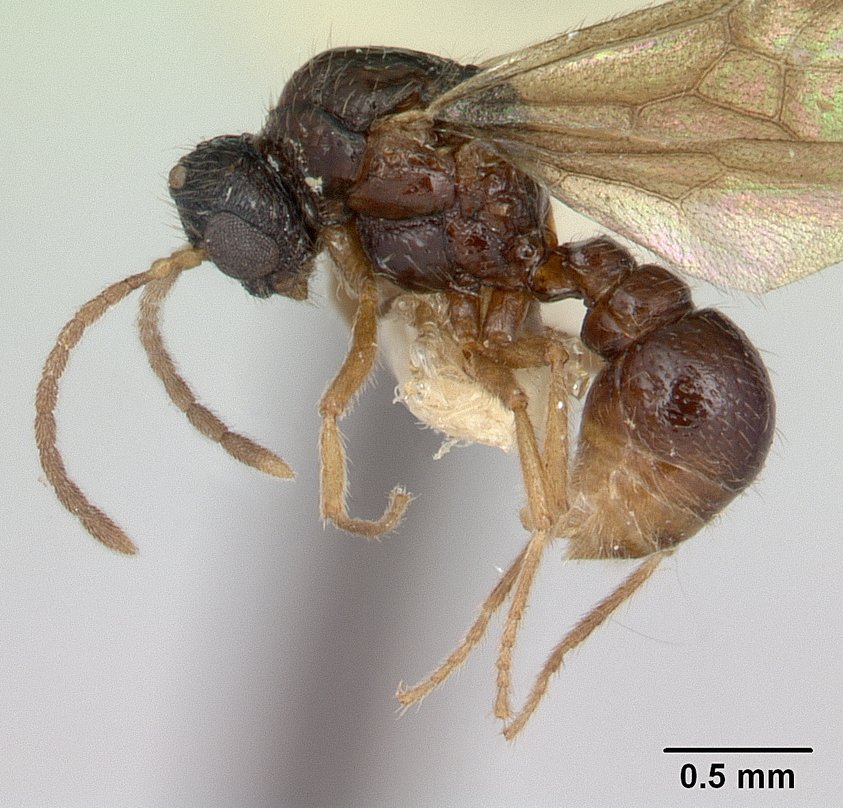 Profile view of ant Tatuidris tatusia specimen casent0178870.